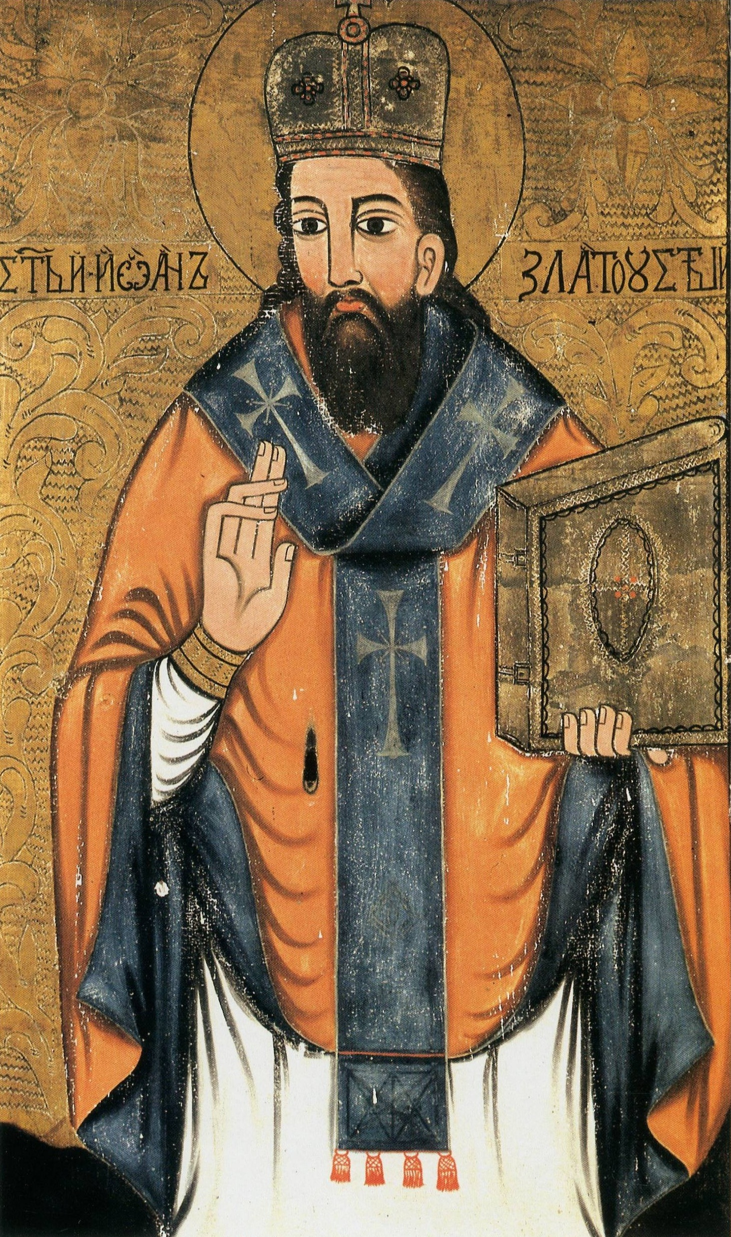 ST. JOHN CHRYSOSTOM. Late 17th с. Wood, tempera. The Holy Virgin Nativity Church, Lakhva, Luniniets district, Brest region.